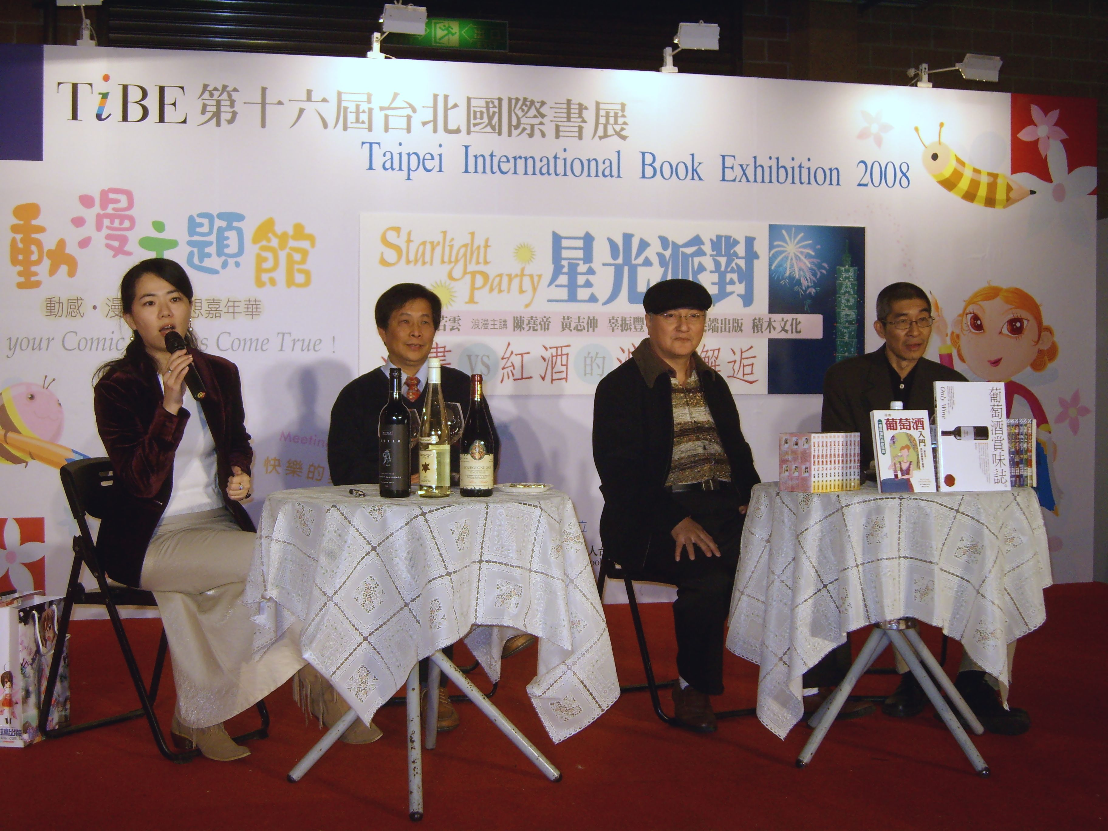 2008 Taipei International Book Exhibition - Signing Stage of Comic Hall (Hall 2): Executives of Starry Night Party Seminar.